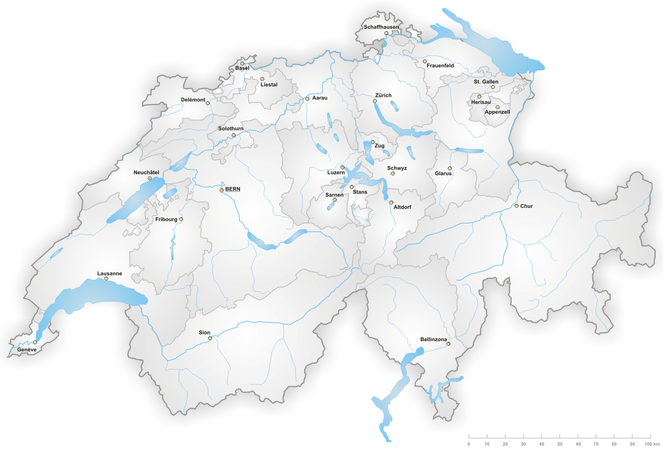 Map of Switzerland